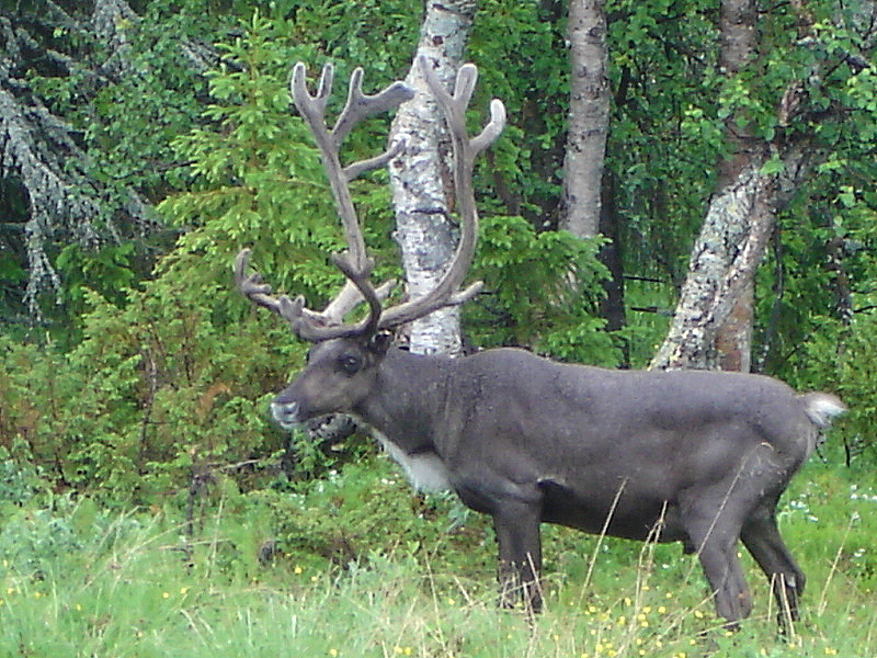 Rangifer tarandus